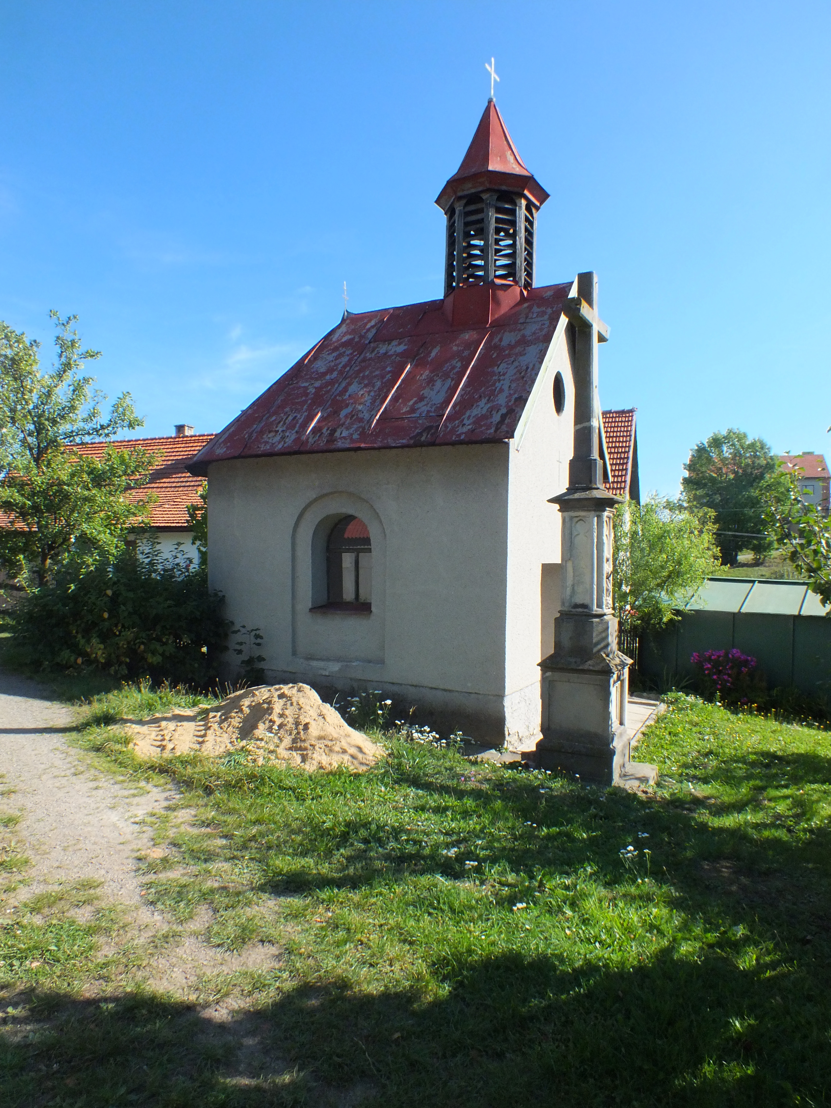 The chapel in Kyžlířov